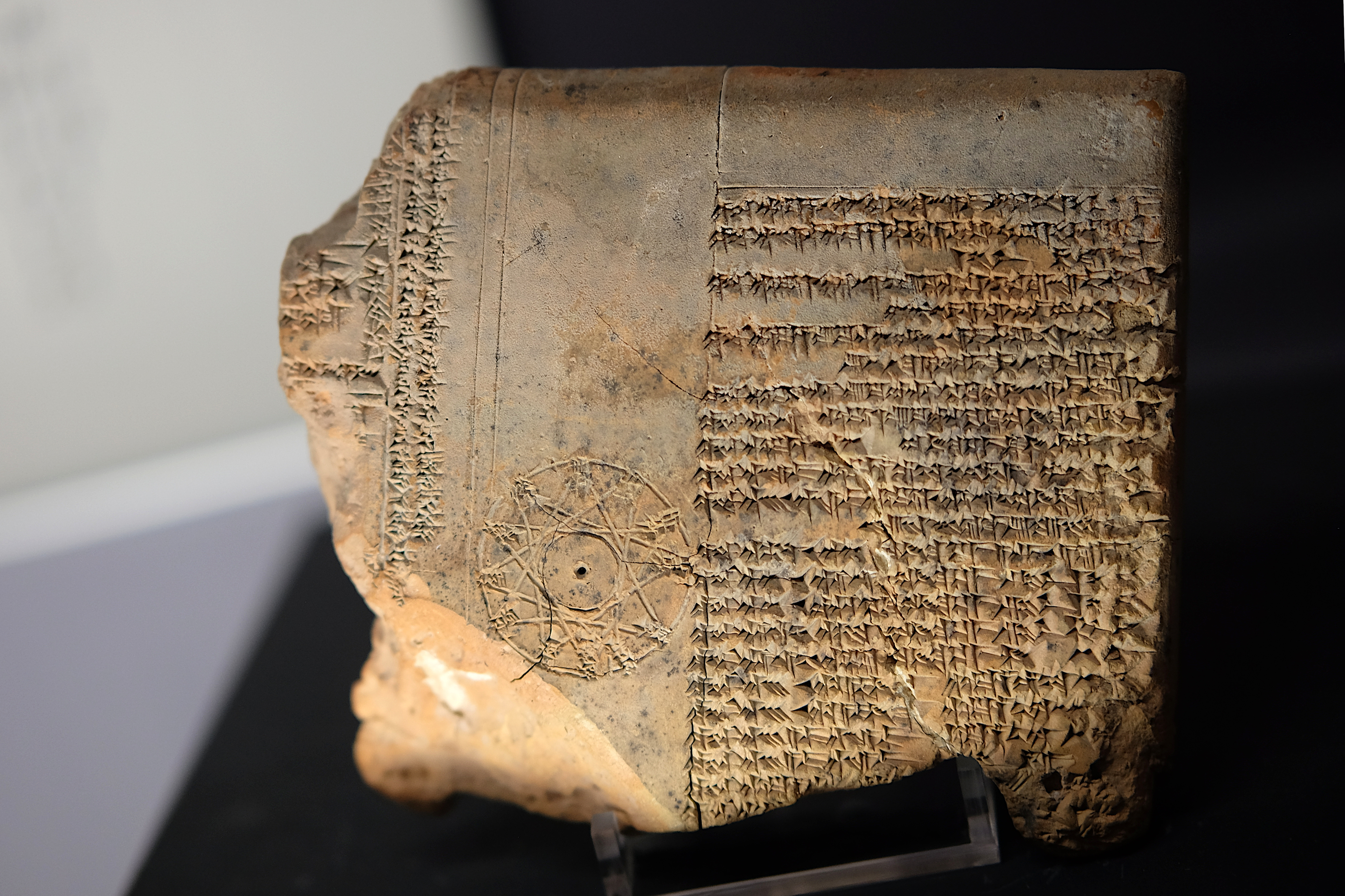 Astronomical text - Seleucid period (330 BC - 138 BC) - Uruk (Warka). Contains astrological omens of a horoscopic type: some based on the birth of an individual and determining his future life; others relating to state affairs.